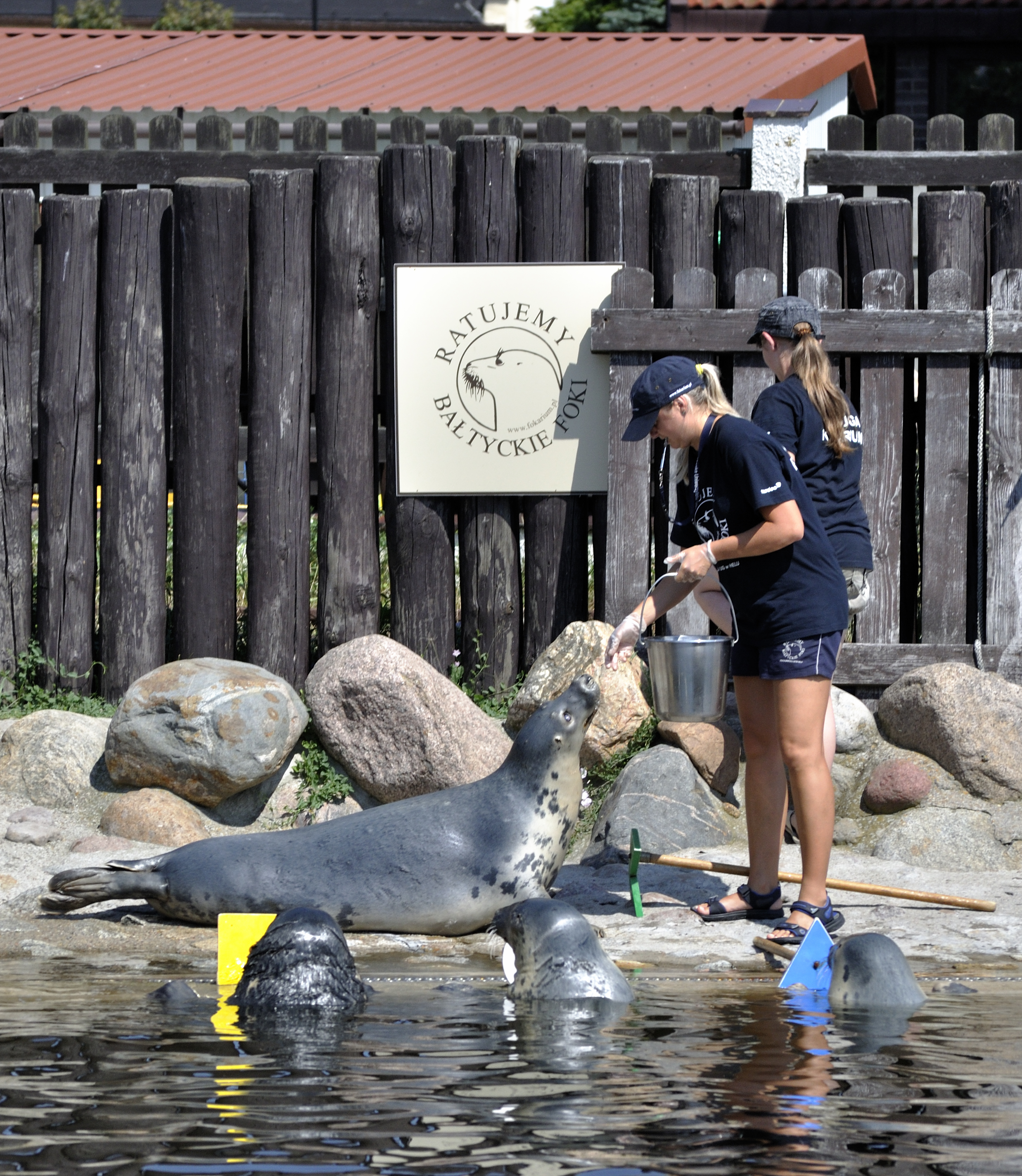 Picture taken in Hel after Wikimania 2010 conference.